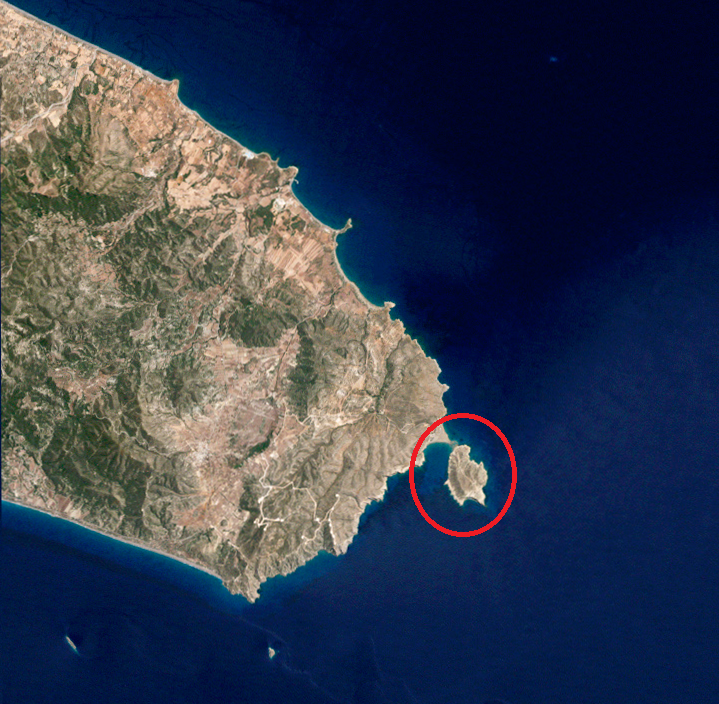 A geological formation in Rhodes that looks like an island